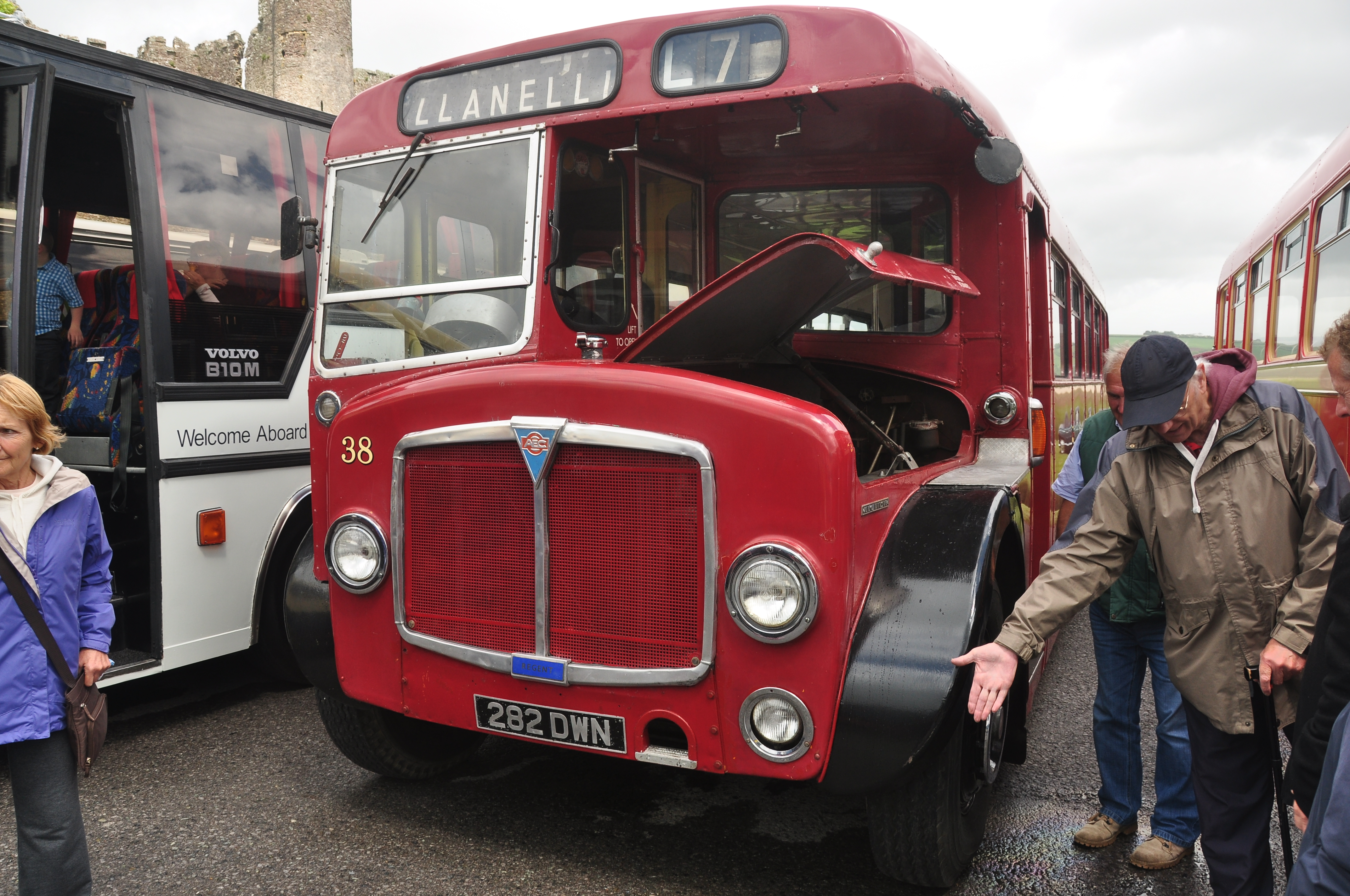 Car rally at Laugharne